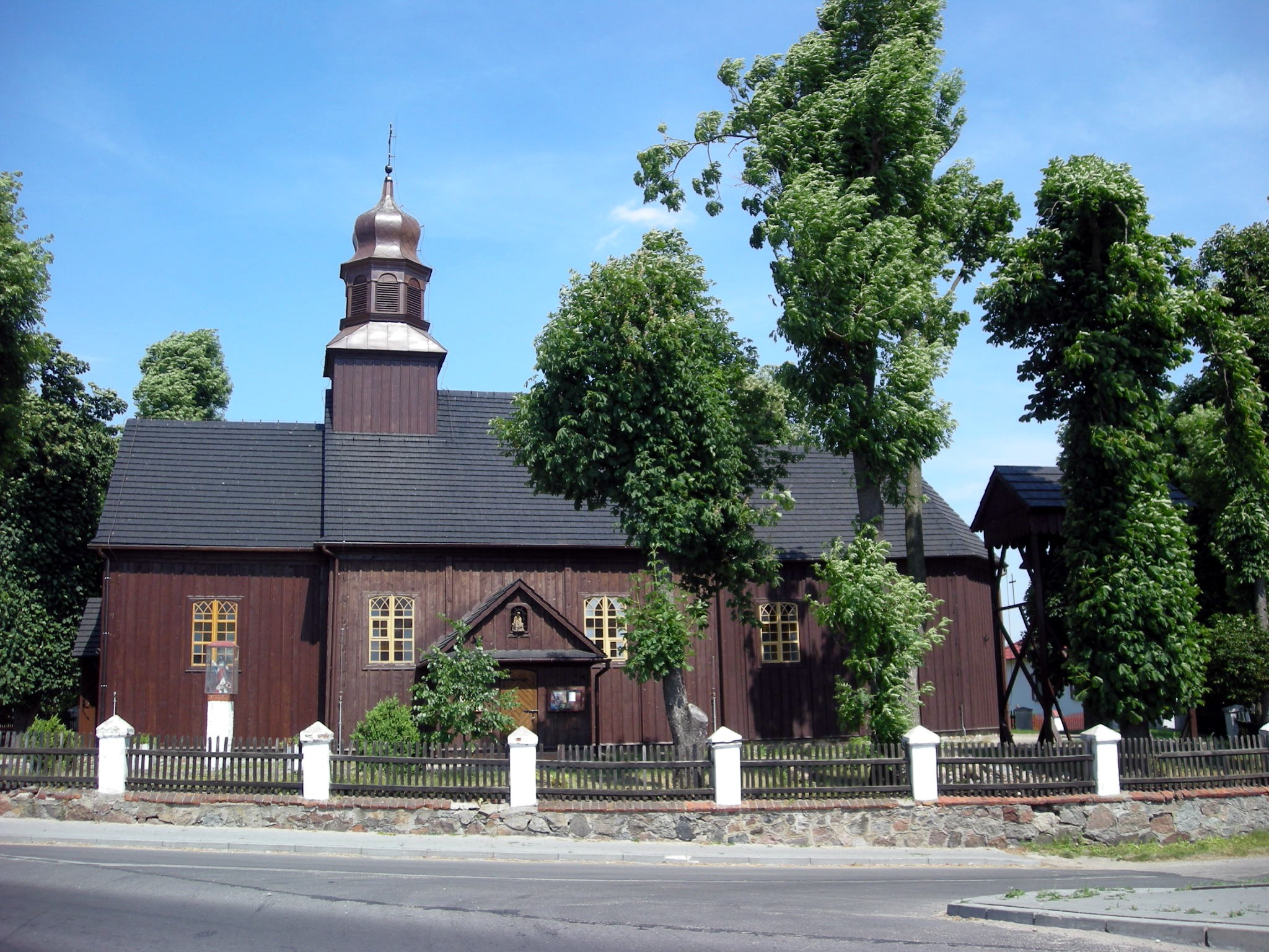 The church in Straszewo, Poland.